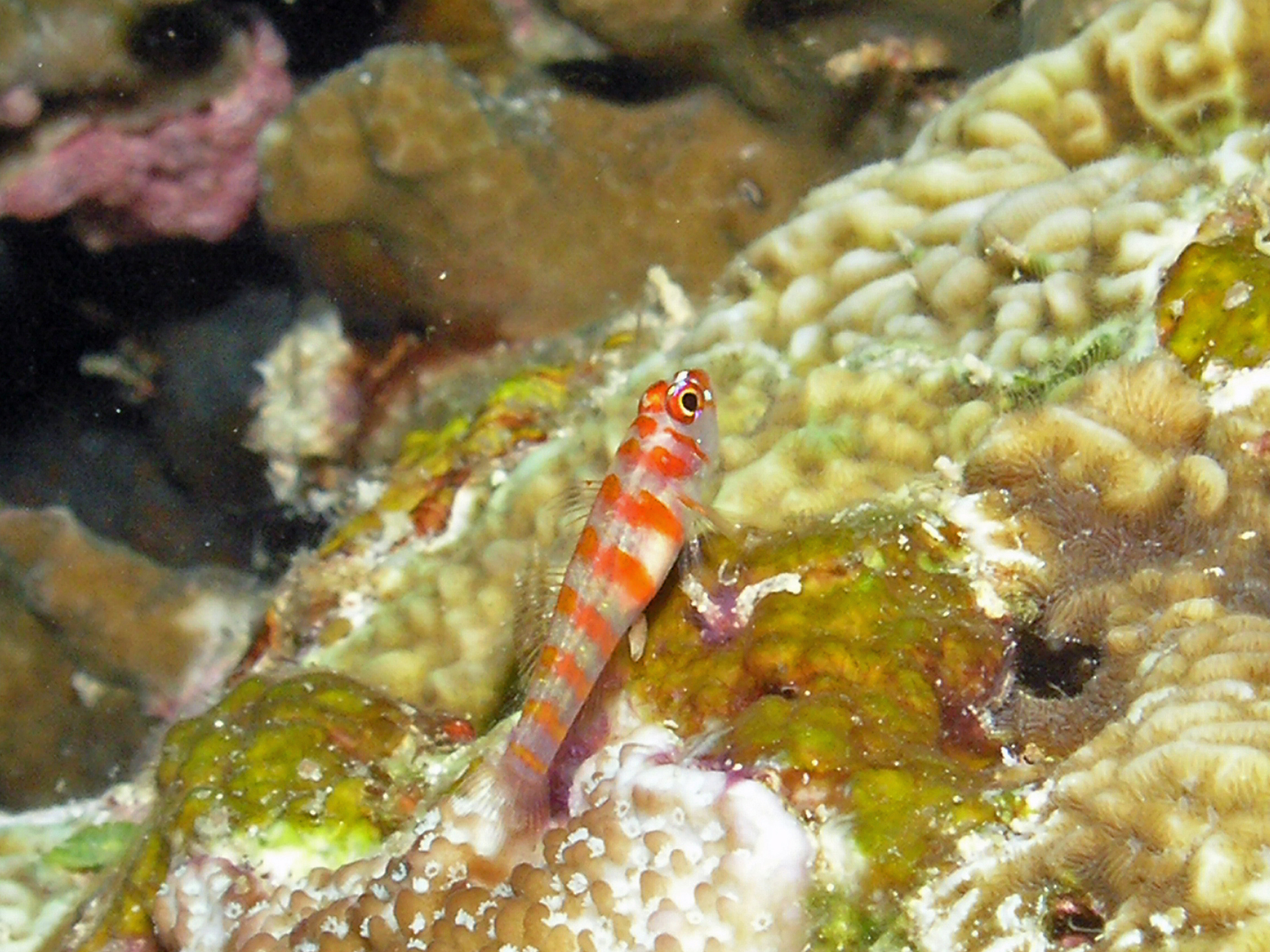 Candycane Dwarfgoby (Trimma cana) at Bunaken Marine Park, North SulawesiBahasa Indonesia: Ikan gobi (Trimma cana) di Taman Laut Bunaken, Sulawesi Utara